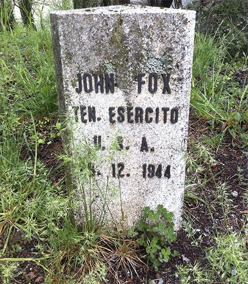 Memorial to Medal of Honor recipient John R. Fox in Sommocolonia, Italy, who died on December 9, 1944 after calling in an airstrike on his own position that had been overrun.